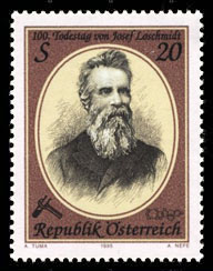 Stamp issued by the austrian postal service for the centenial of Josef Loschmidt's death.